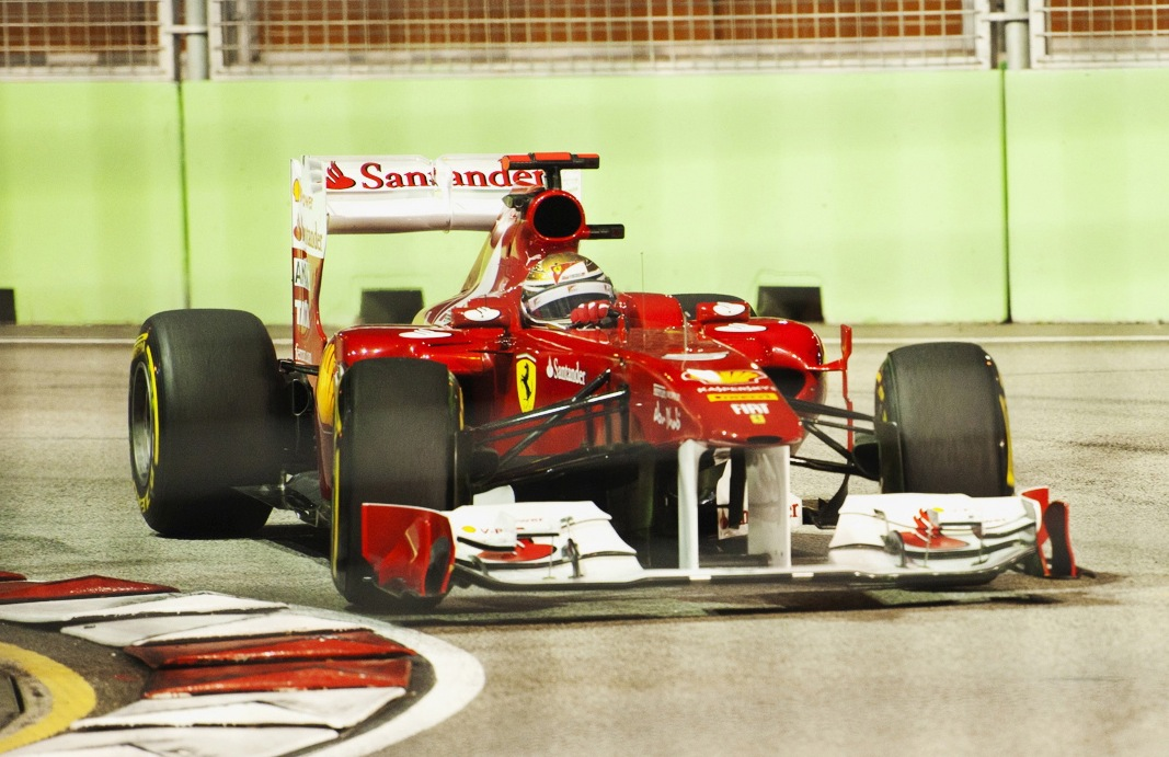 Fernando Alonso during Friday practice Singapore